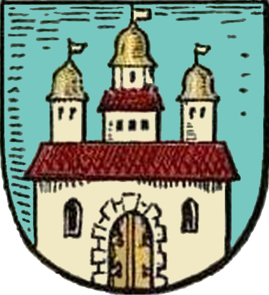 Coat of arms of the former city of Kirchhain, since 1950 part of Doberlug-Kirchhain.